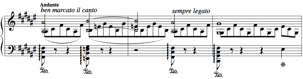 Second theme of the Dante Sonata (Après une Lecture de Dante: Fantasia Quasi Sonata), composed by Franz Liszt